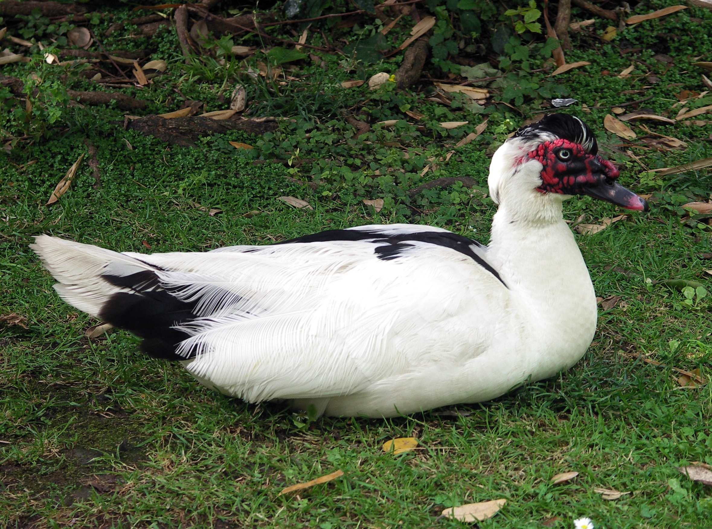 Muscovy duck (Cairina moschata) at Estrela Garden, Lisbon.